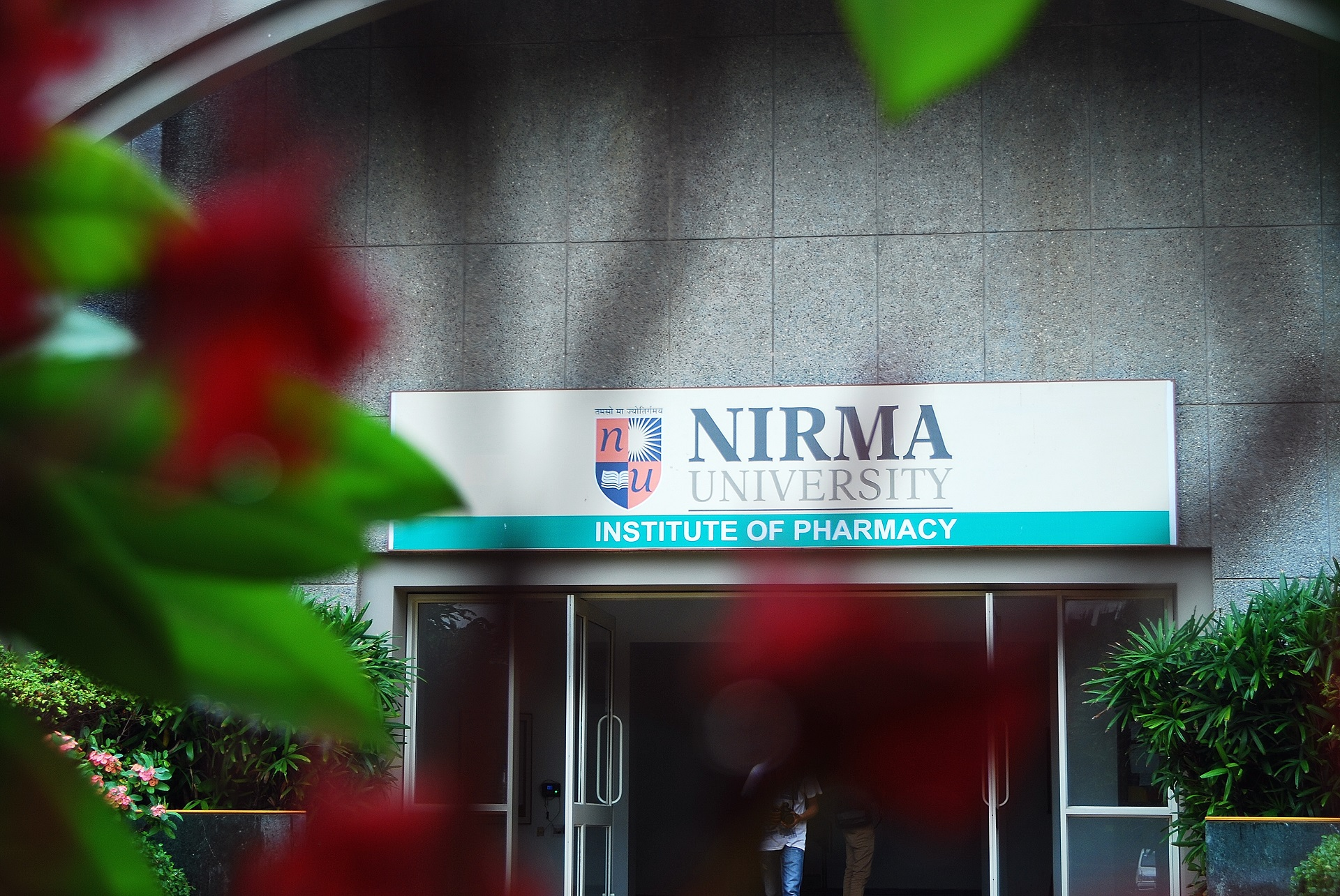 Institute of Pharmacy was established in the year 2003 under Nirma University with the aim of developing able professionals in the field of pharmaceutical sciences.